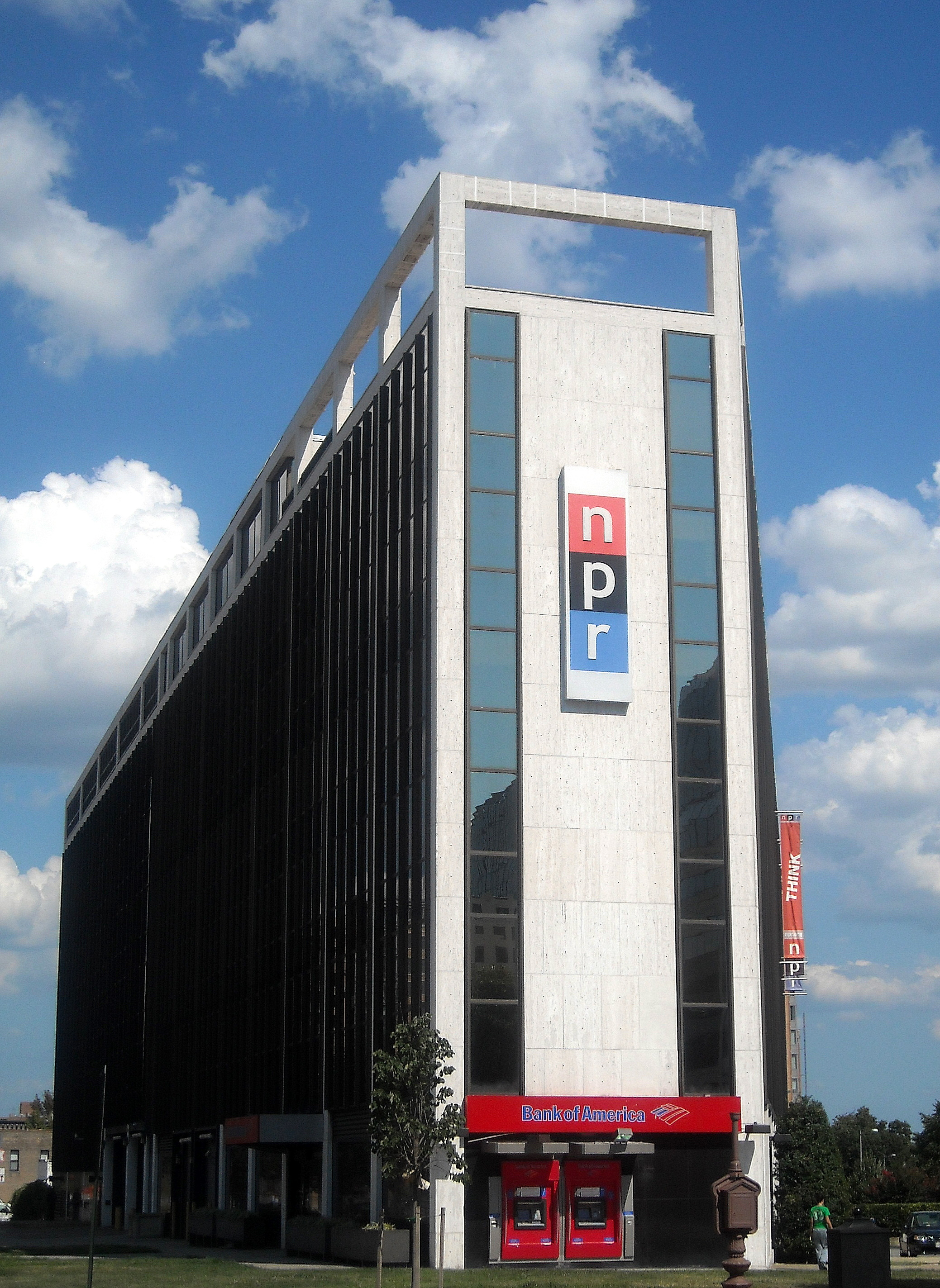 National Public Radio headquarters at 635 Massachusetts Avenue, NW in Washington, D.C.